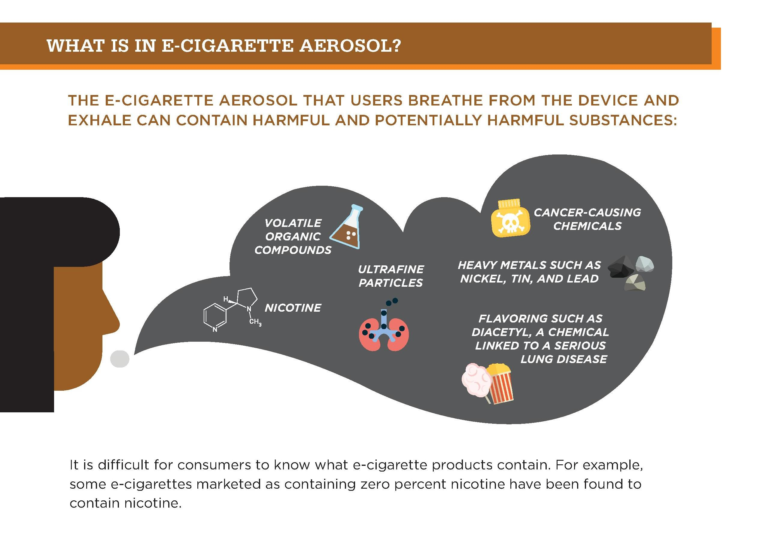 Electronic Cigarettes, What is the bottom line informational pamphlet from the US Center for Disease Control and Prevention